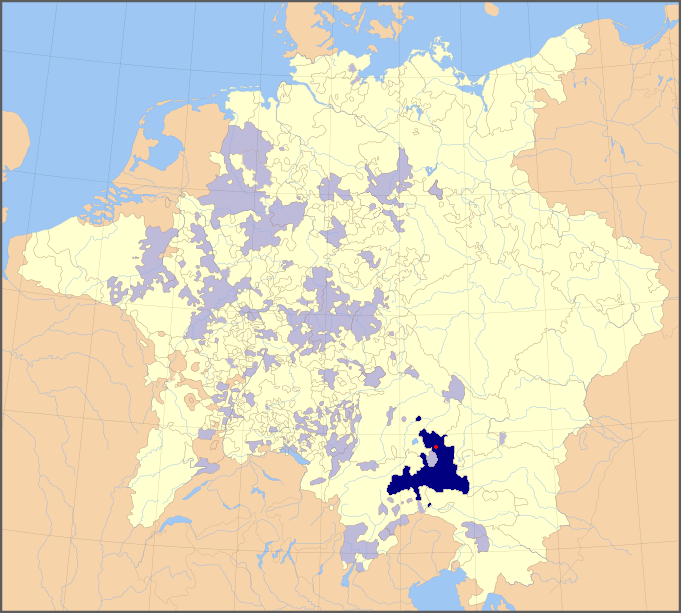 Map of the Holy Roman Empire, 1648, with the territories belonging to the prince-archbishop of Salzburg highlighted